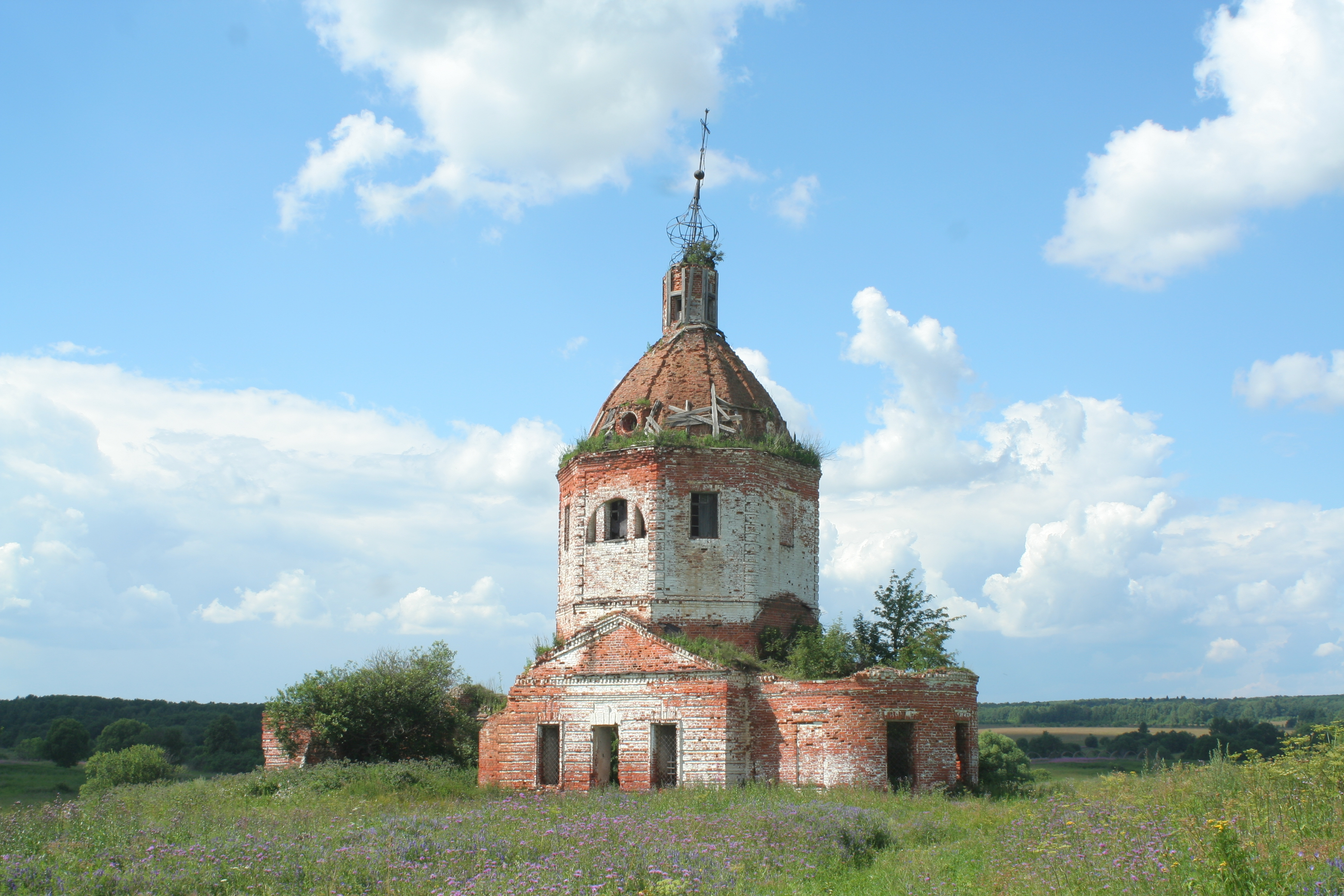 Church in Samarovo village